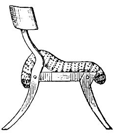 Chair from Ancient Greece